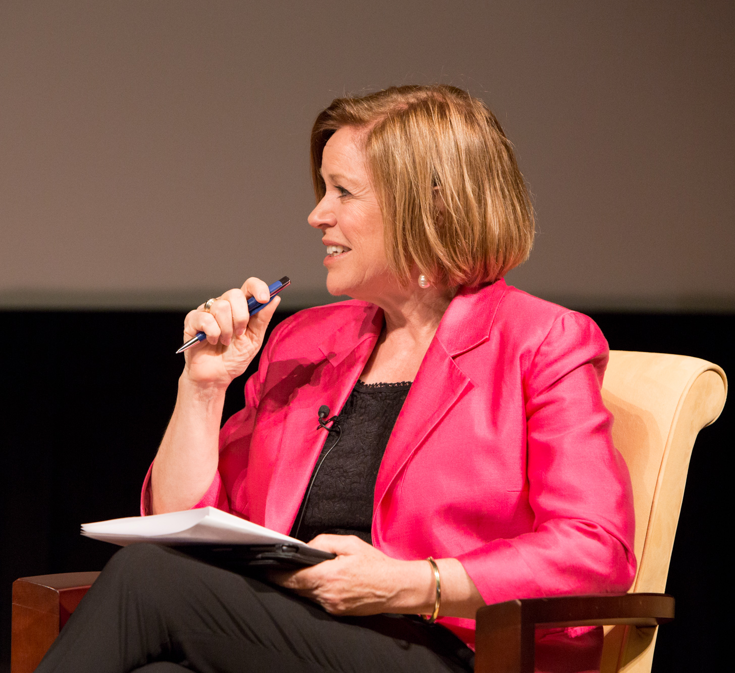 First Ladies; Susan Swain, President and CEO of C-SPAN, moderates a discussion about First Ladies